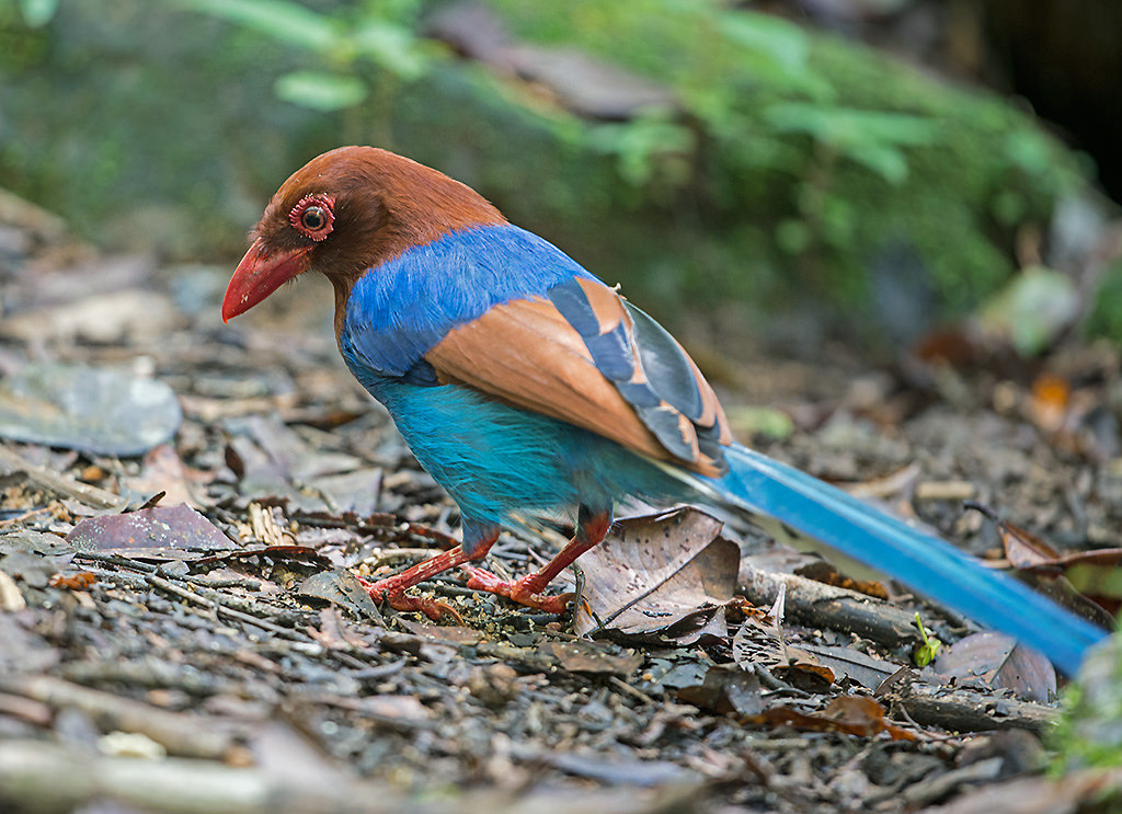 Sri Lanka Blue Magpie (Urocissa omata) is a colorful, near-threatened resident of evergreen forests of Sri Lanka. Sinharaha Rain Forest, Jan 2014